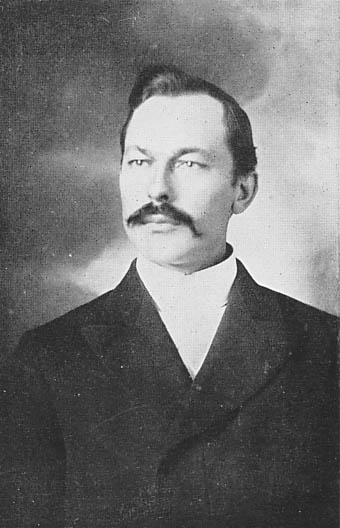 Charles Naylor, US Representative from Pennsylvania